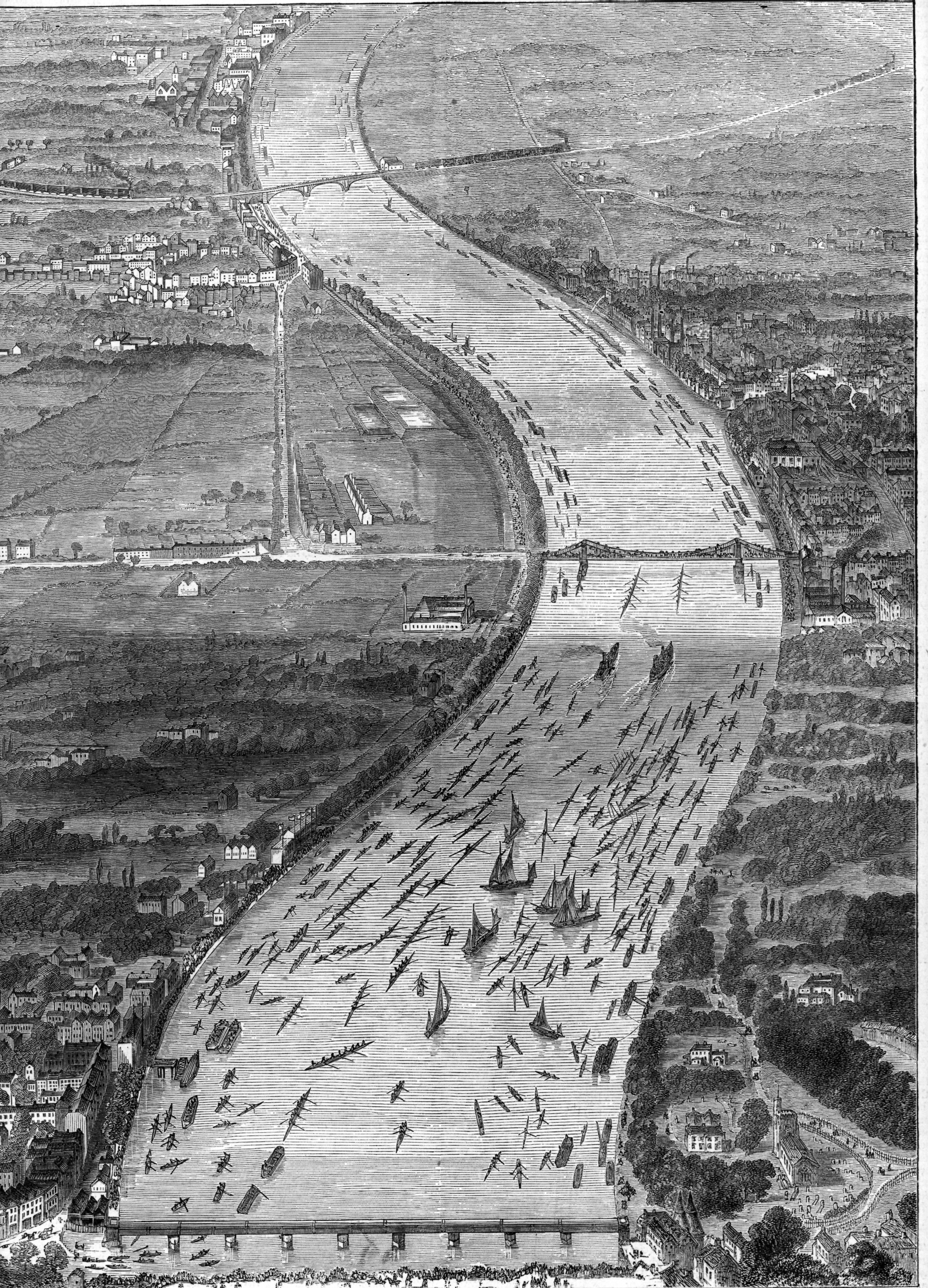 The 1870 Oxford-Cambridge Boat Race - artist's aerial view - wood block - The Graphic (London) - April 9, 1870